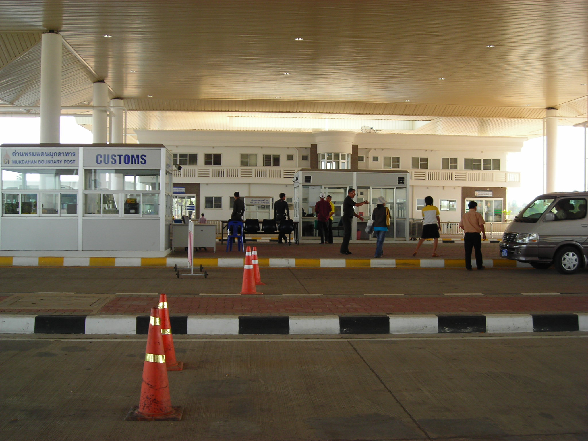 Checkpoint at the Second Thai–Lao Friendship Bridge, Thai side - at the left side you can see the Mukdahan Boundary Post